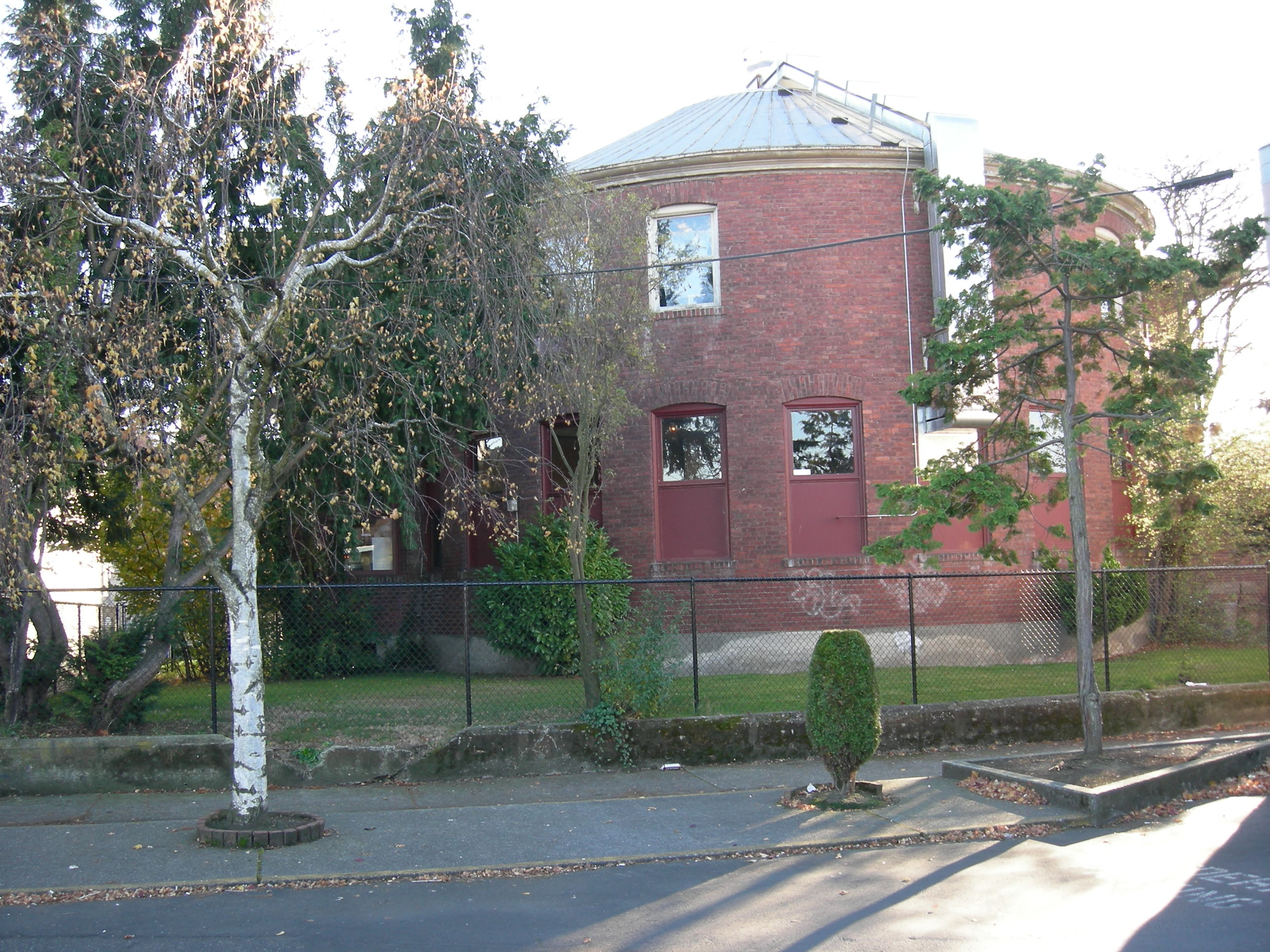 Rear view of the Ballard Carnegie Library, Ballard, Seattle, Washington. The building, now shops and a restaurant, was listed on the National Register of Historic Places (NRHP) in 1979 (ID #79002535).